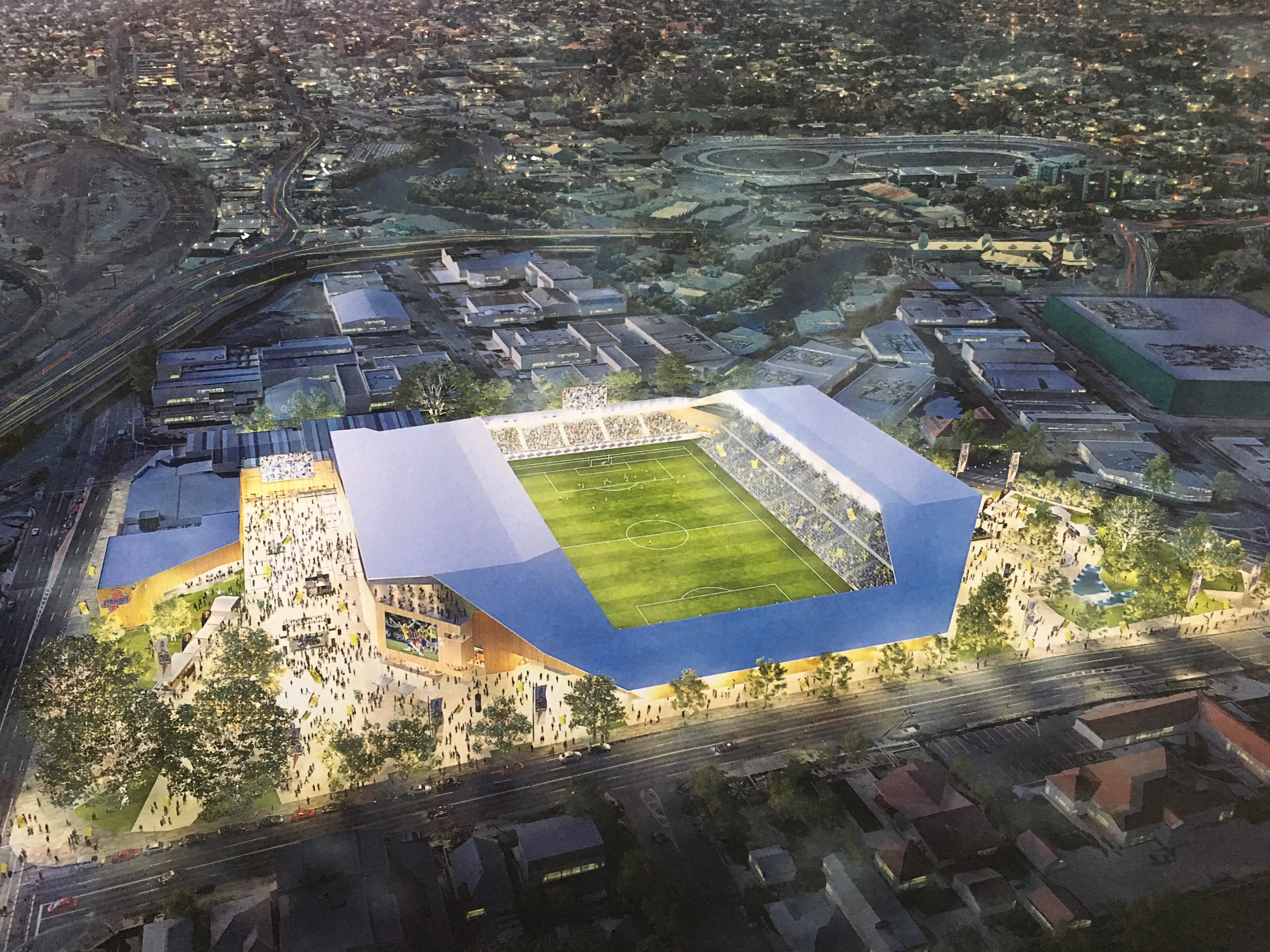 Cox Architects designed a boutique stadium for the Perry Park site for the Brisbane Strikers.